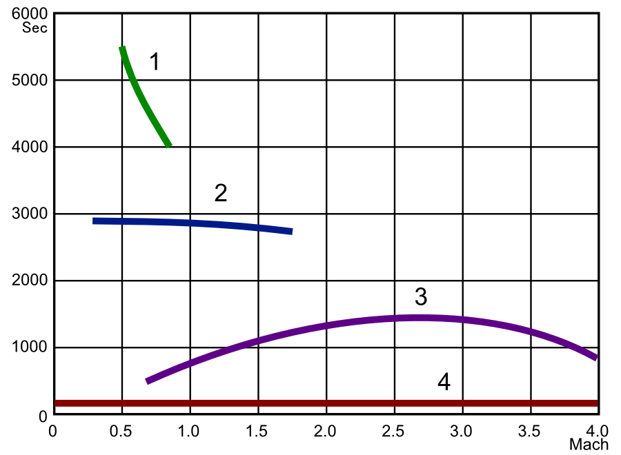 Specific impulse 1. Reciprocating engine 2. Turbojet engine 3. Ram-Jet engine4. Rocket engine